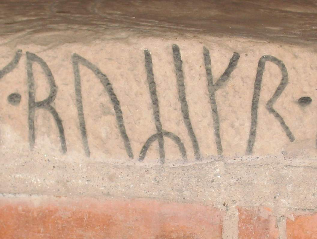 The runes representing the Old Norse name Hrœrekr on the Viking Age runestone U 413 in the church of Norrsunda, Uppland, Sweden. The stone was later used as material for a church, and only the name can be read in a preserved fragment.